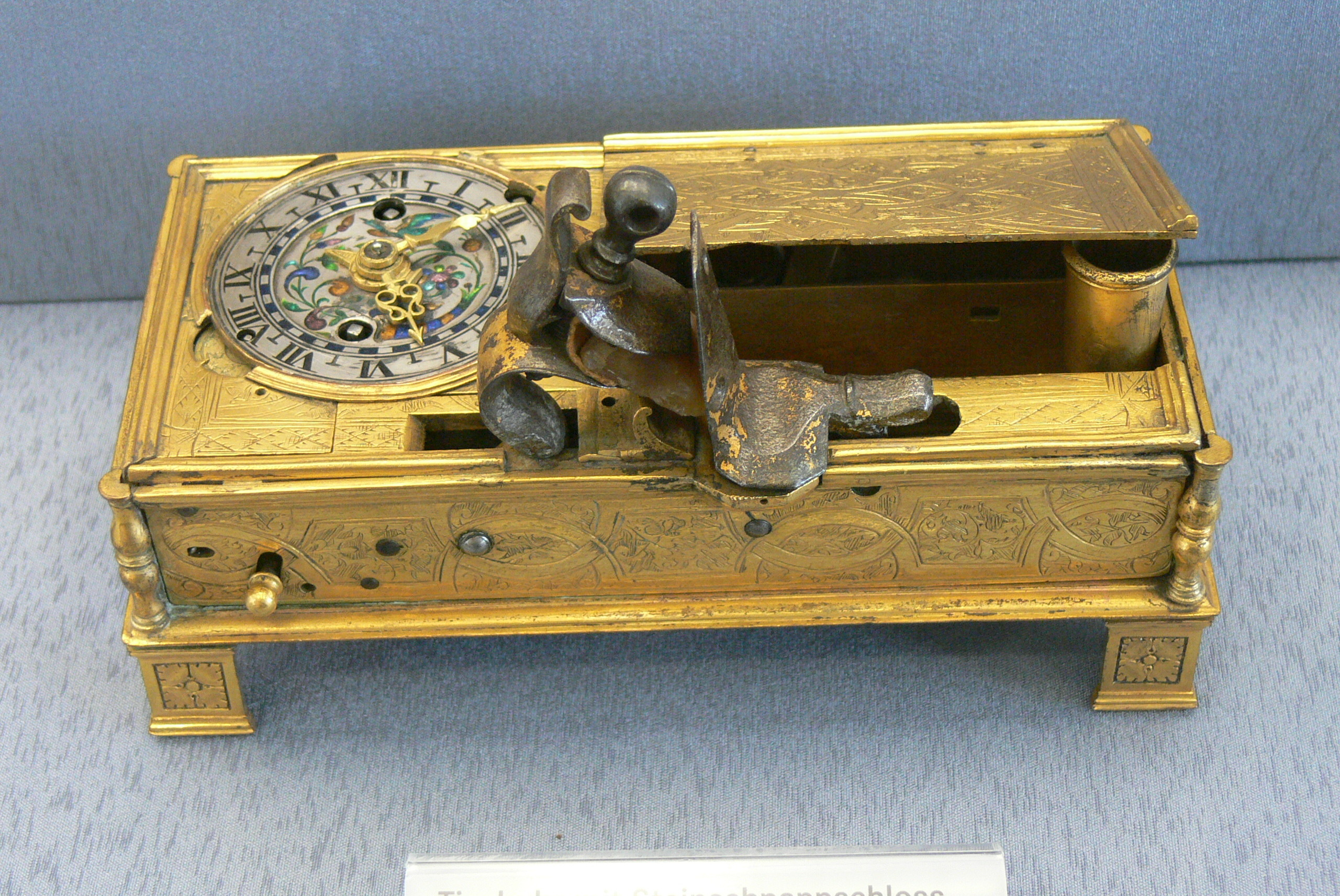 German National Museum ( Nuremberg / Germany ). Table clock with flint lock( 1550s ), from southern Germany.